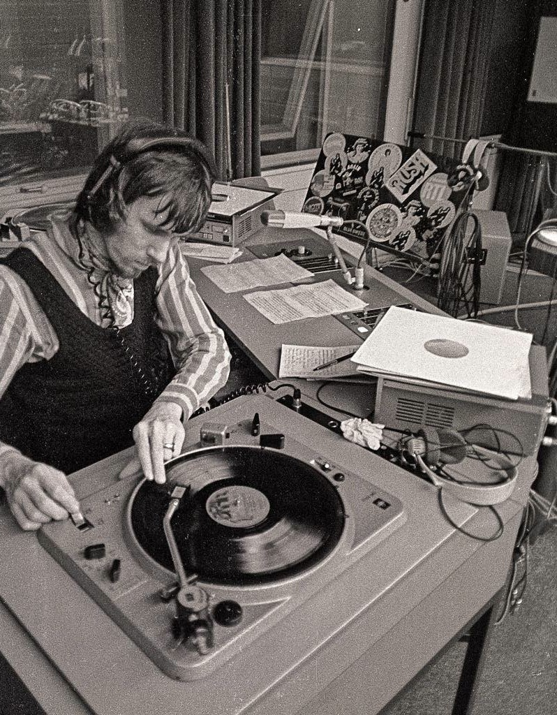 Winfrid Trenkler during Radiobroadcast in german WDR